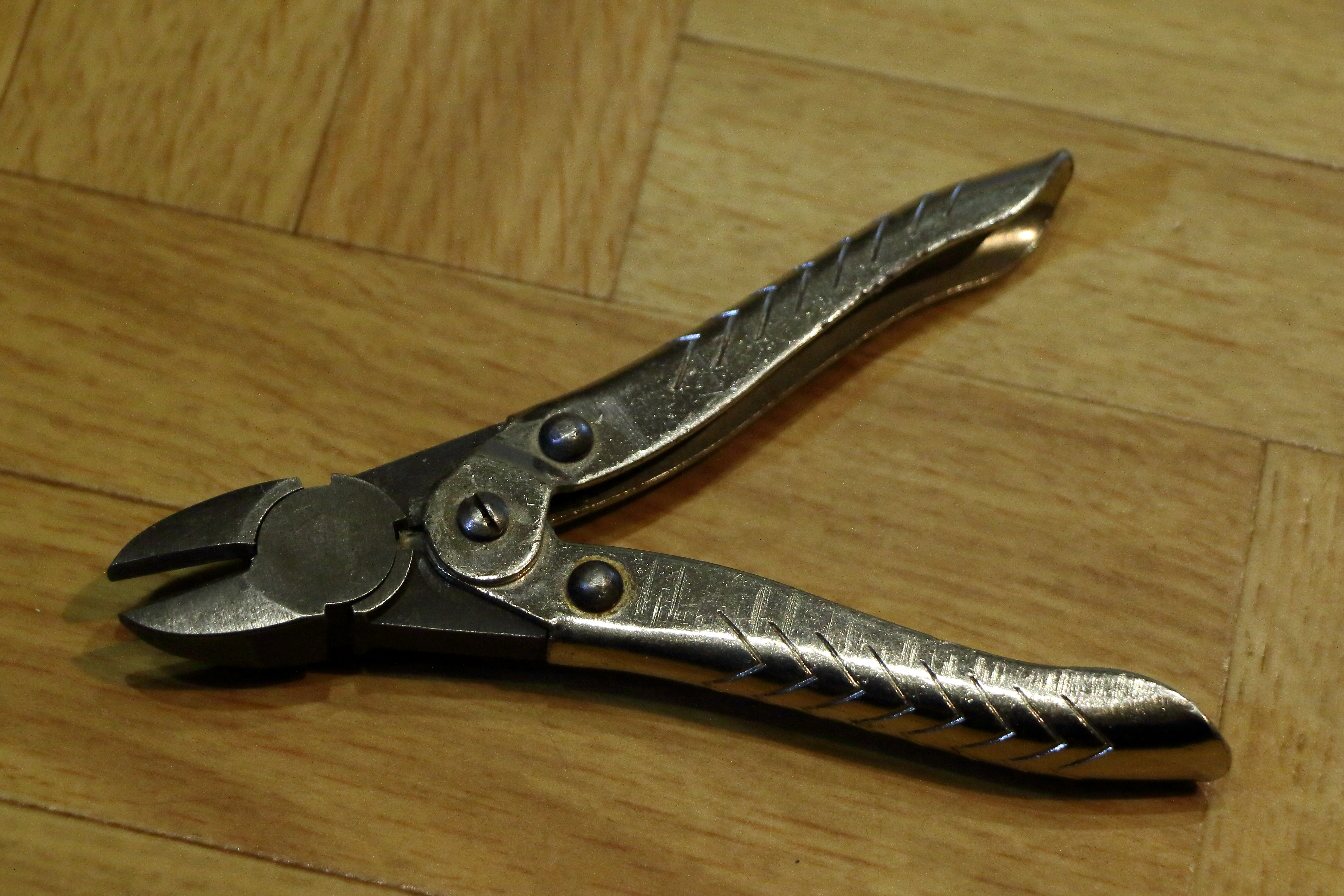 Compound action wire cutters with self opening spring and chromed handles.